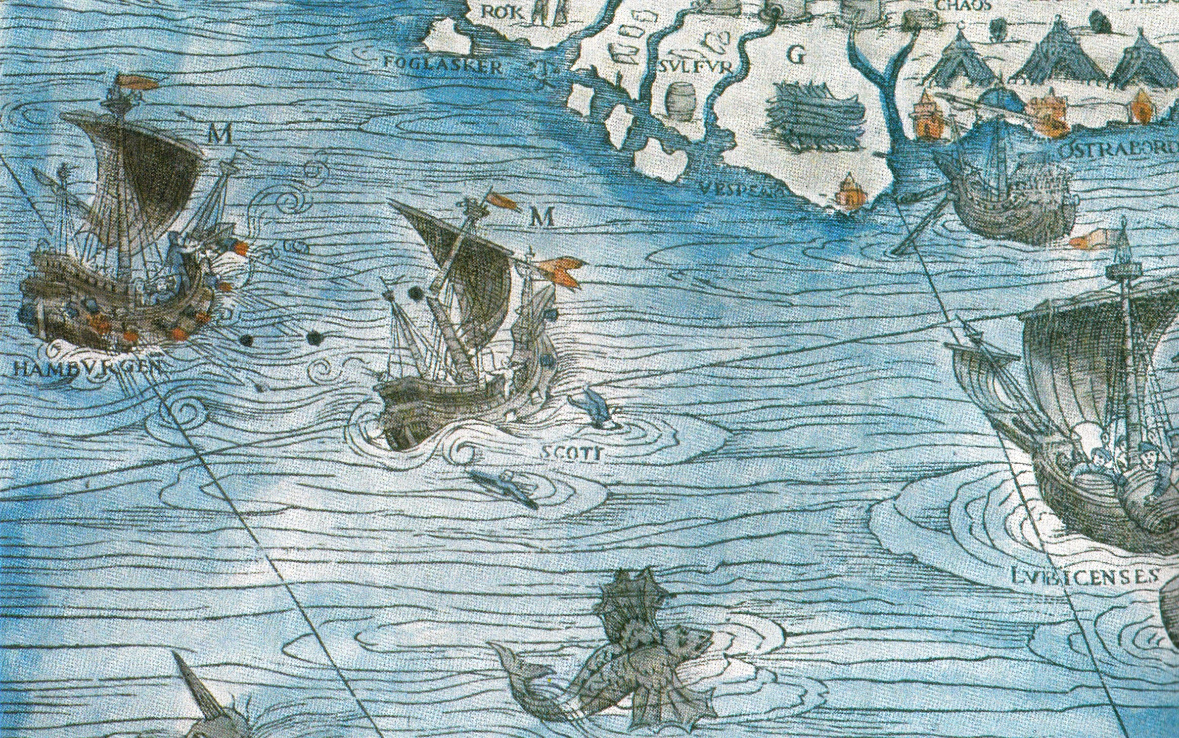 A Scottish armed merchantman attacked by a ship from Hanseatic Hamburg. Detail from Carta marina. The Complaynt of Scotlande (1549) gives the following onomatopœiac rendition of the sounds made by these ships in battle, "...I hard the cannons and gunnis mak mony hiddeus crak, duf, duf, duf, duf ... the falcons cryit tirduf, tirduf, tirduf, tirduf, ... than the smal artailye cryit tik tak, tik tak, tik tak ..."